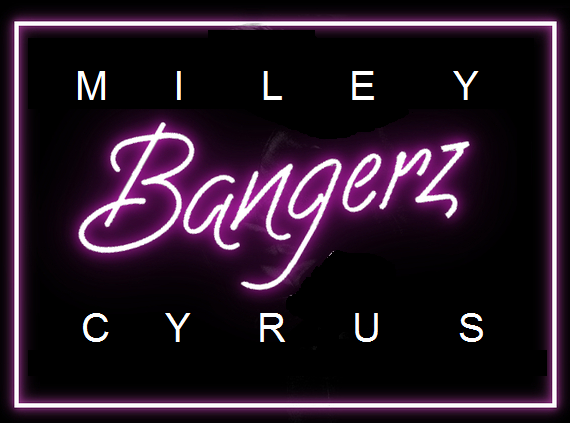 Miley Cyrus - Bangerz cover 2013